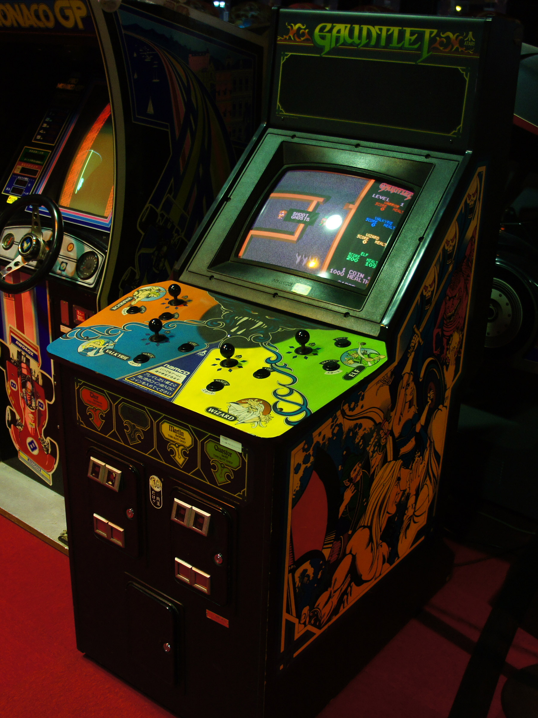 ATARI's GUANTLET in Japanese version. It had been merchandised by NAMCO.